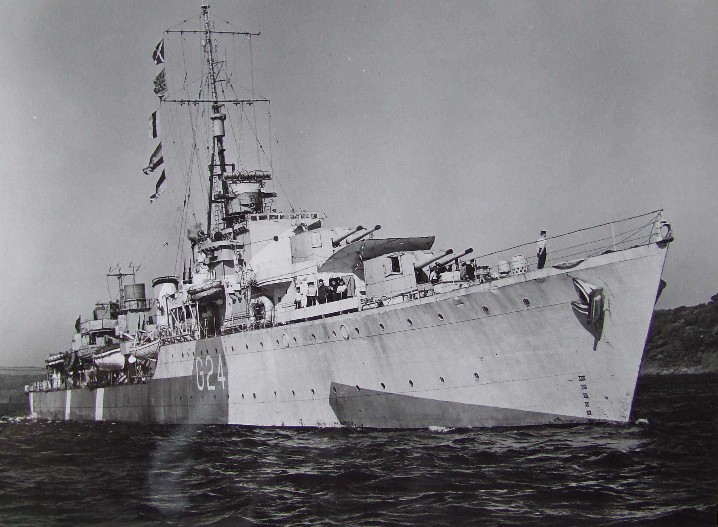 HMCS HURON sailing out to sea